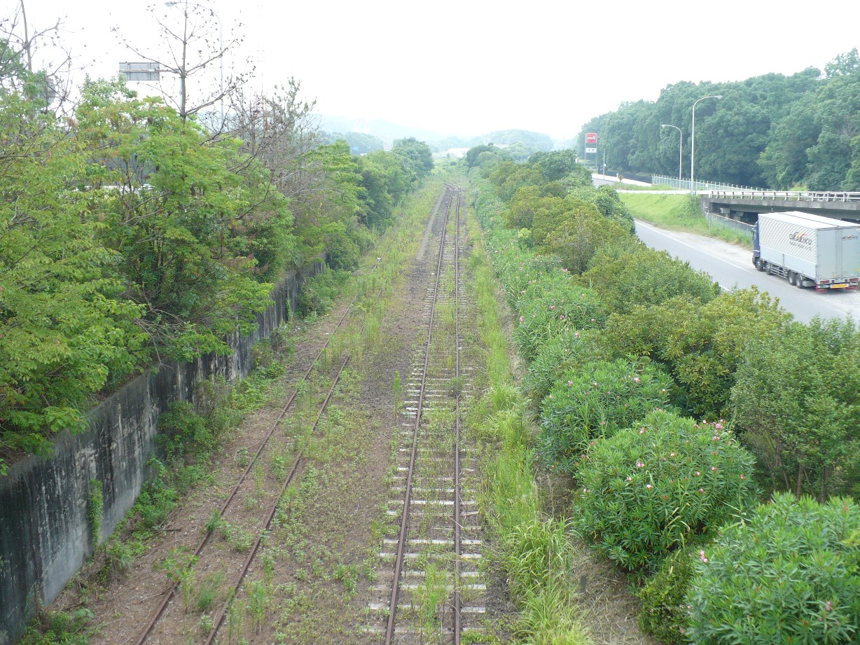 Chita freight station of Nagoya Rinkai Railway, Chita, Aichi, Japan. The station is not in use as of the date of photo.